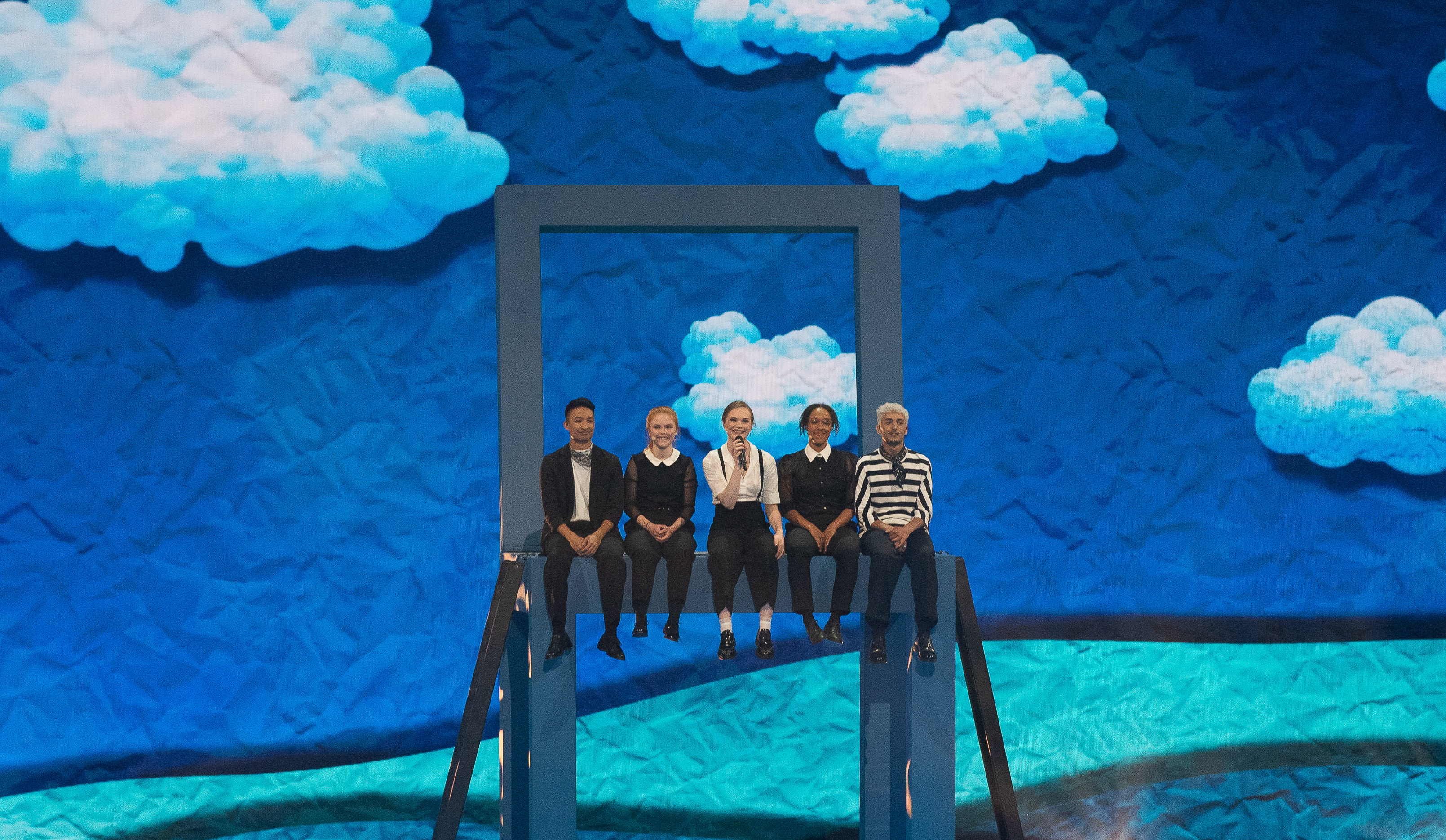 Leonora representing Denmark with the song "Love Is Forever" during a rehearsal before the second semi-final of the Eurovision Song Contest 2019 in Tel-Aviv.